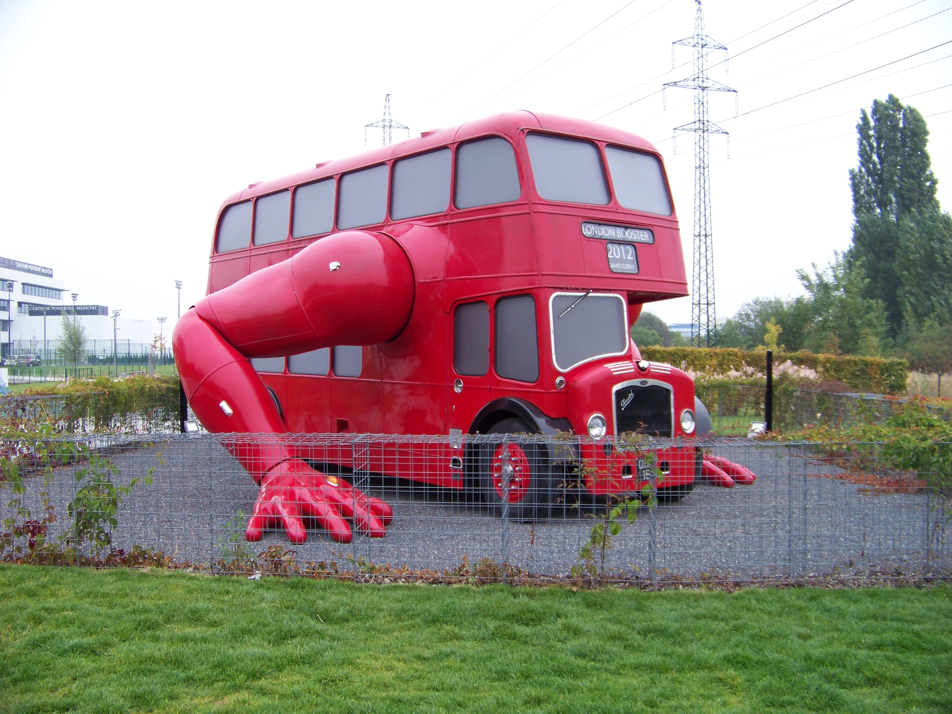 Prague-Chodov. Chodovec, Klíčova street, London Booster by David Černý. - OpenStreetMap (Info)